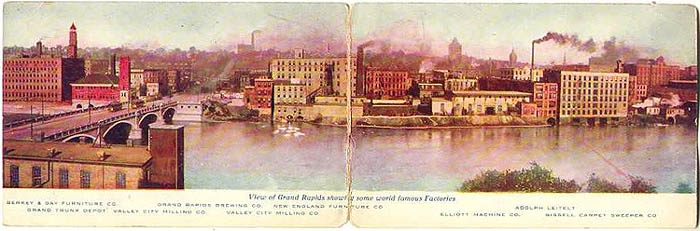 1905 Postcard of Grand River panorama, Grand Rapids, Michigan